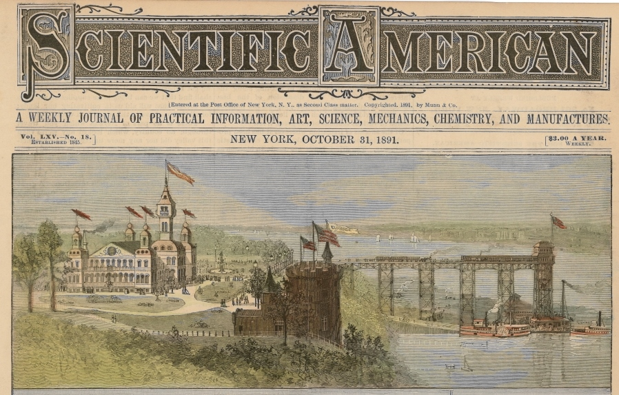 Eldorado Amusement Park, 1891. Illustration shows main Casino building,the Castle, and the massive elevator built to bring passengers from the ferry on the Hudson River. Cover page of October 31, 1891 issue of Scientific American.